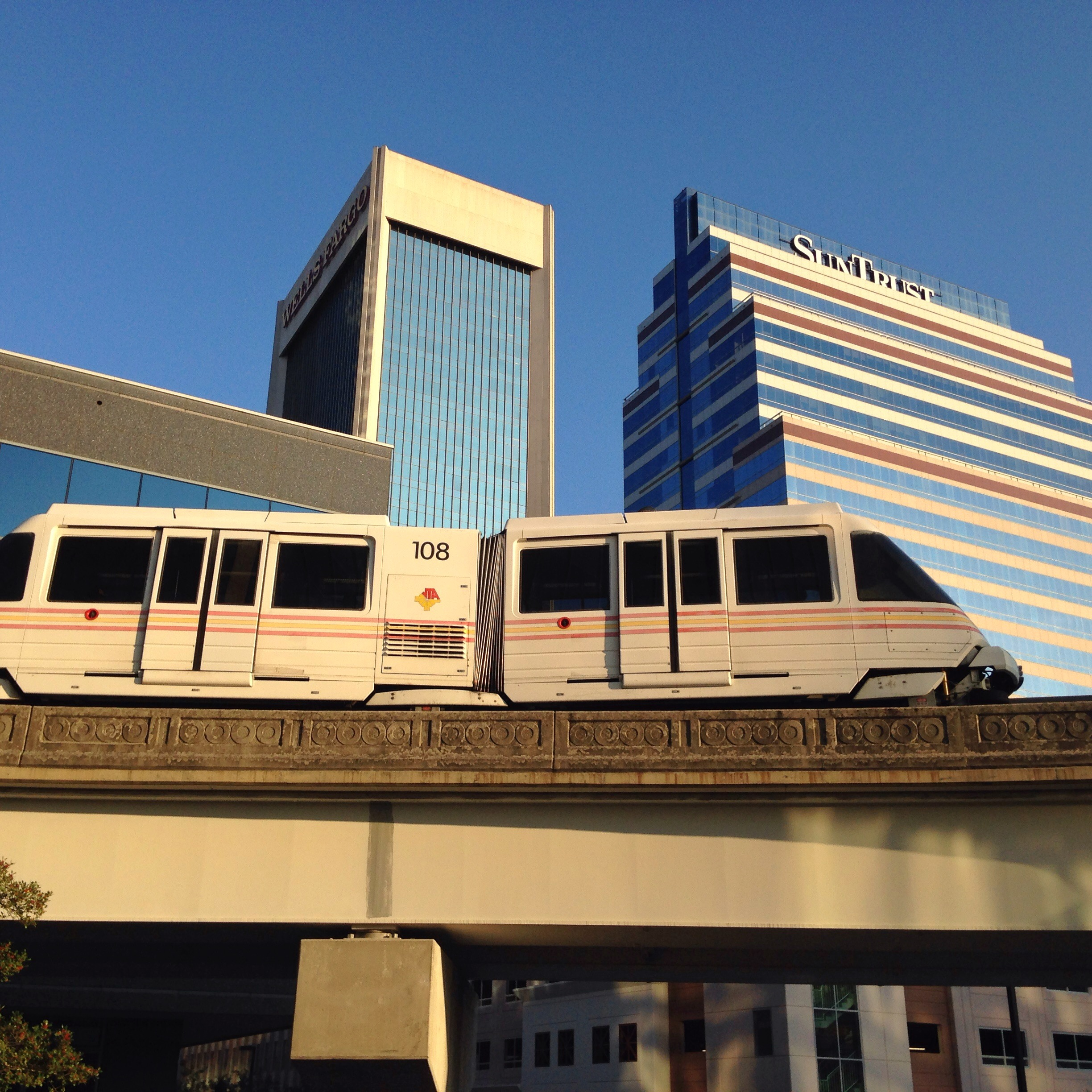 Jacksonville Skway, Jacksonville, Florida, - cornerof Bay and Hogan